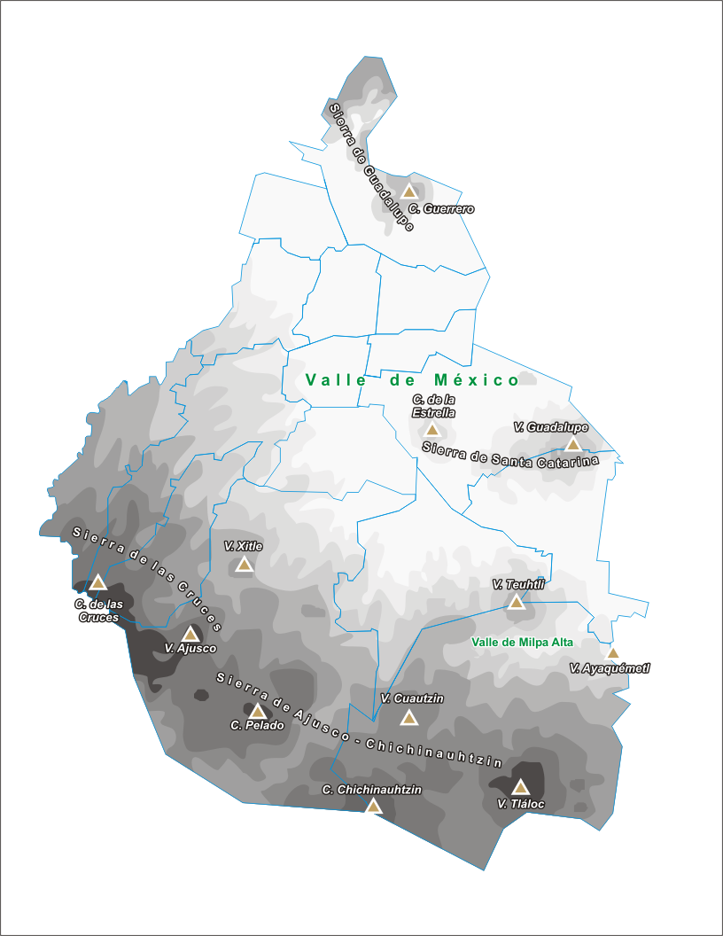 Topography map of Mexico City